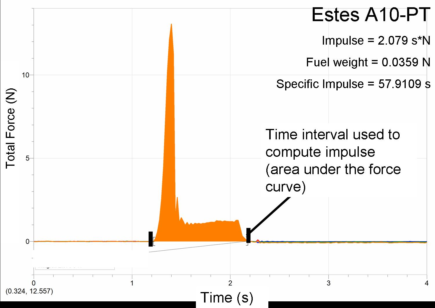 An example thrust curve for the Estes A10-PT rocket at sea level with specific impulse, fuel weight, and impulse information given.